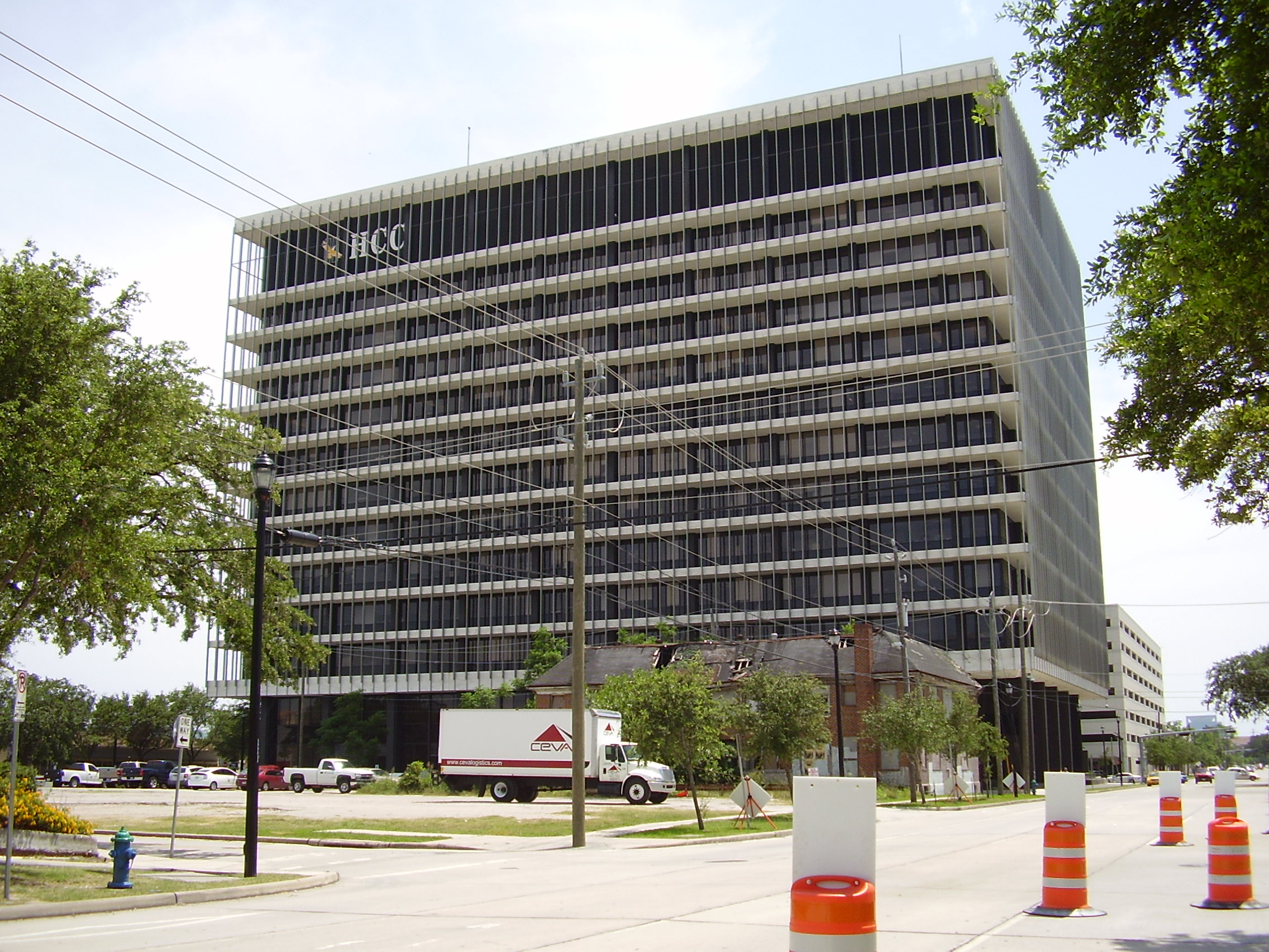 3100 Main, the headquarters of Houston Community College in Midtown Houston